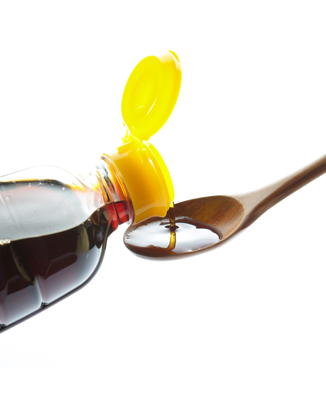 gukganjang (soup soy sauce)